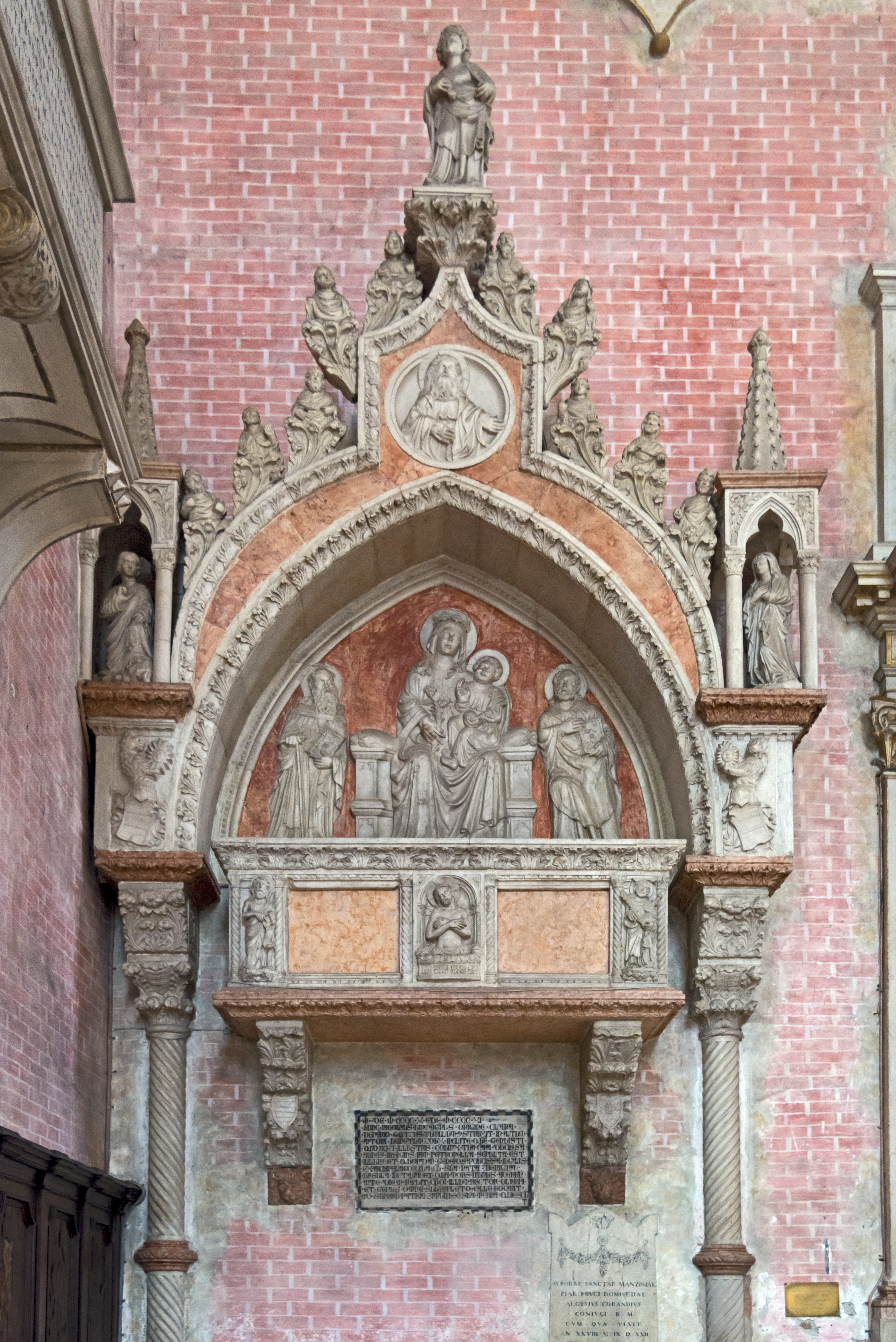 Left transept of Santi Giovanni e Paolo in Venice - Tomb of dogaressa Agnese Venier (†1410), wife of Antonio Venier, his daughter Orsola Venier († 1471) and his granddaughter "Petronilla Toco". Work, of the Venetian sculptor Filippo di Domenico.